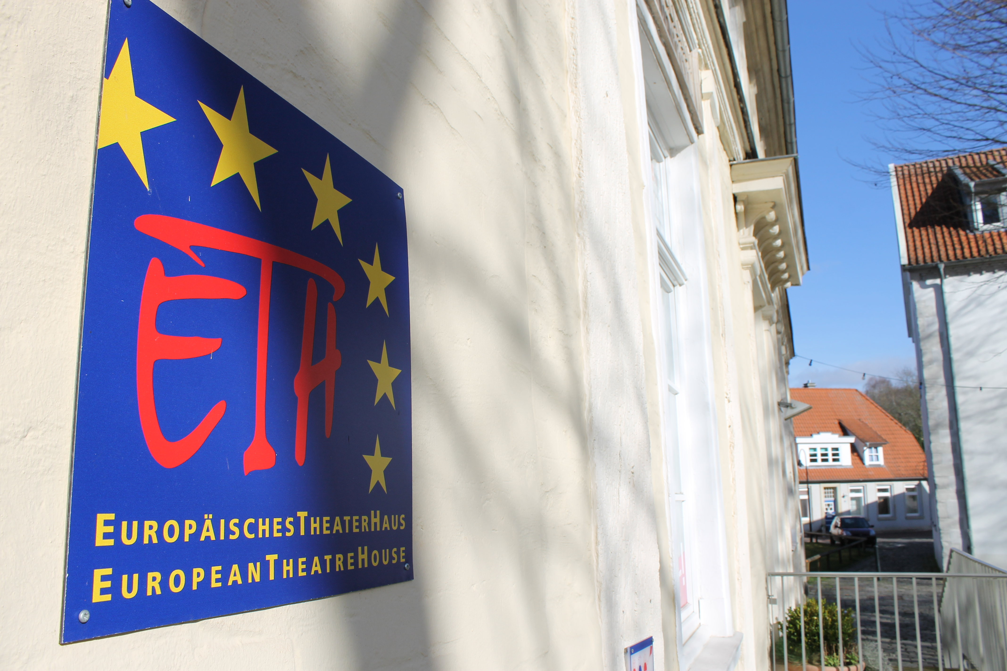 The logo of the European Theatrehouse on the Old Professor's Mansion in Lingen, Germany, where the main office of the organzation is located. The ETH has an office in that building, which is otherwise used by the Centre of Theatre Education, Lingen.